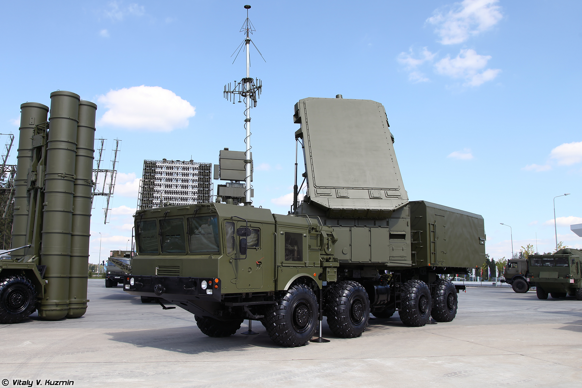 92N6A radar for Russian S-400 missile system.